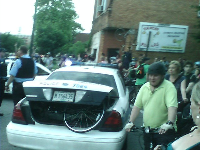 Chicago June 27 2008 critical mass arrest in Bridgeport